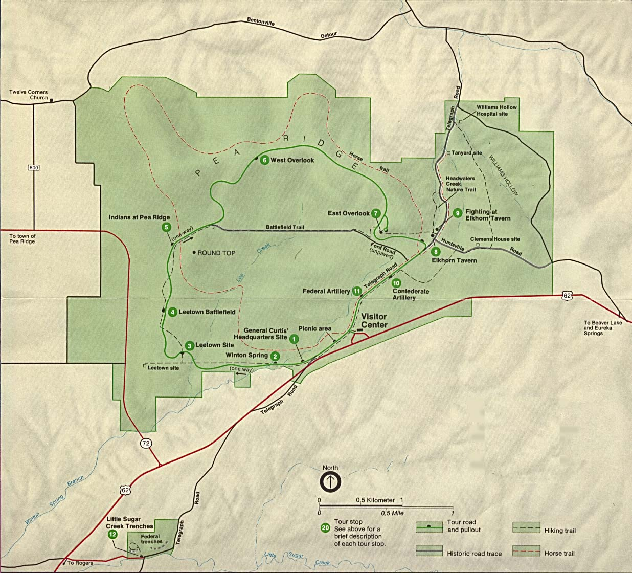 Pea Ridge National Military Park park map, originally listed and attributed to the US National Park Service at